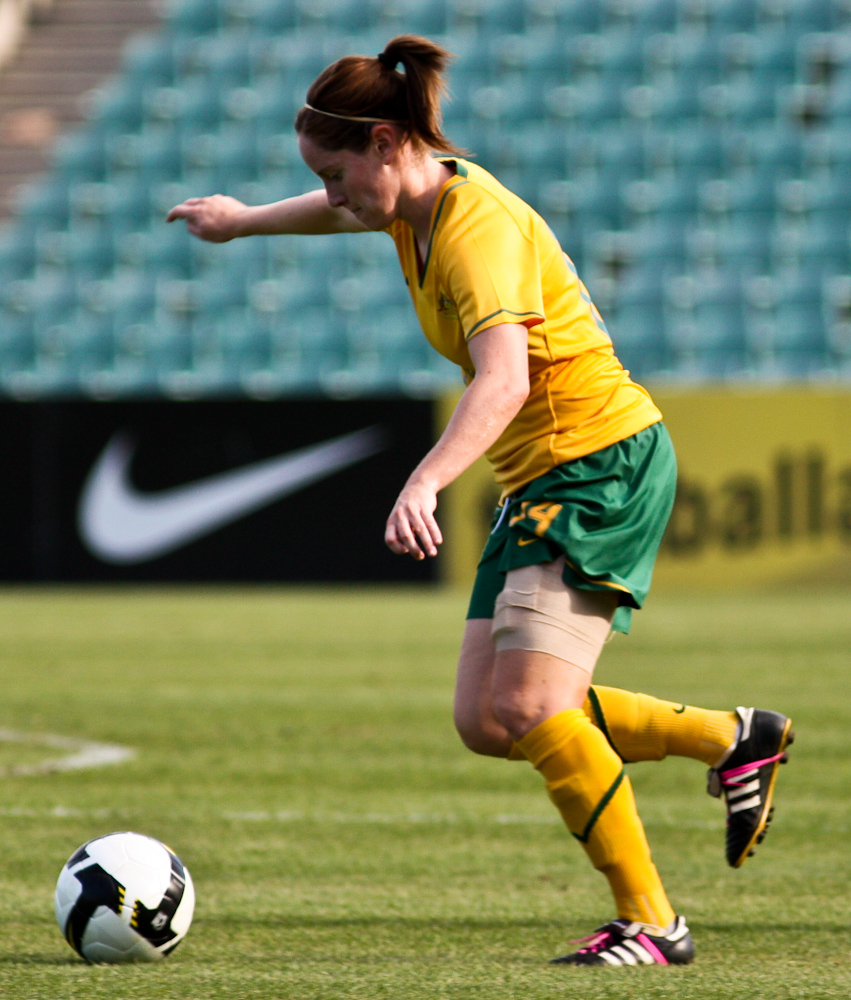 Collette McCallum playing for the Australian Women's Football Team against Italy in a friendly international.